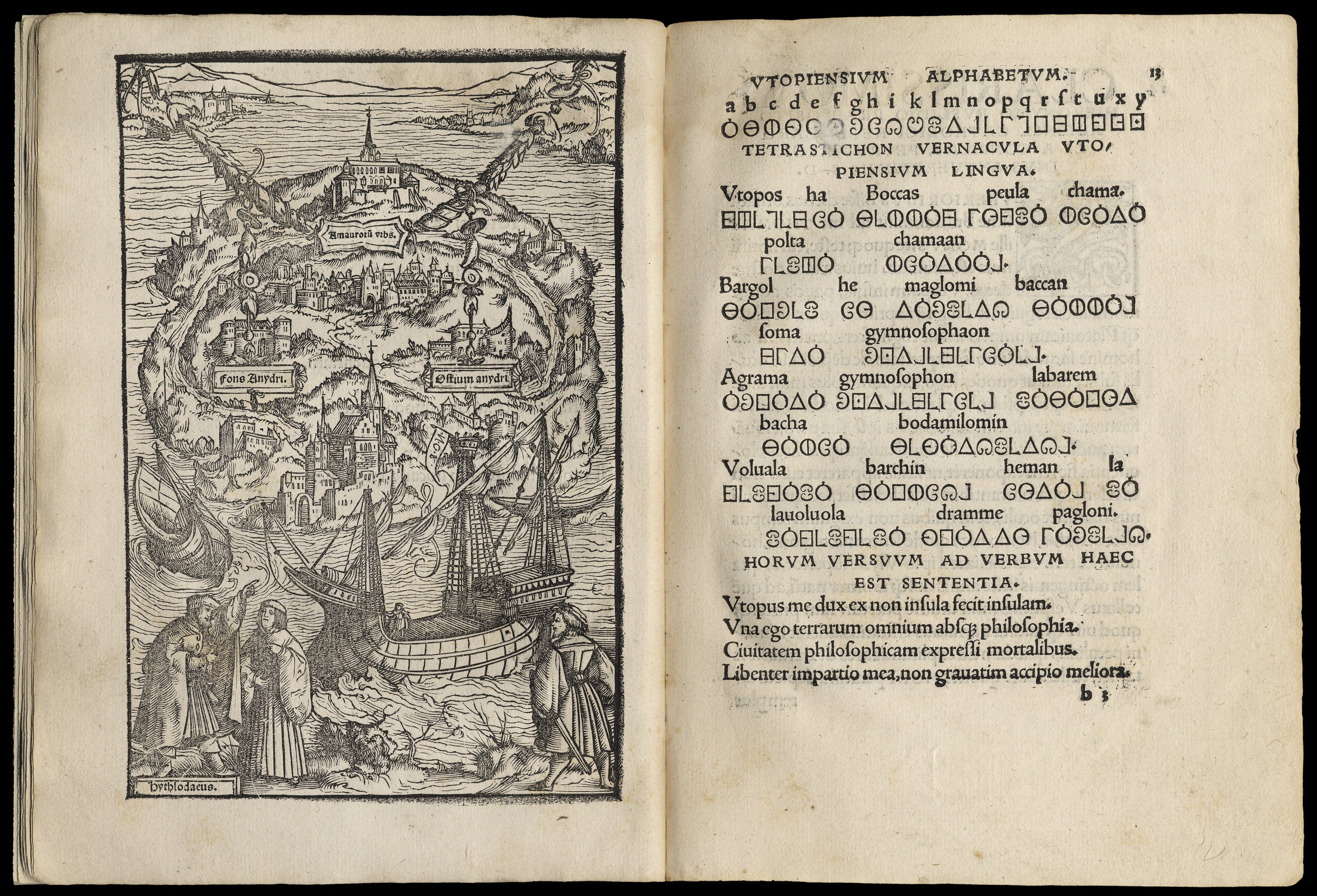 These are p. 12 & p. 13 of Thomas More's 'Utopia' as printed in november 1518 by Johannes Frobenius in Basel. On the left (p. 12), we can see the map of Utopia island (which responds to the map of 1516) ; on the right (p. 13), we can see the "Utopiensivm Alphabetvm" (which resumes the one of 1516 edition but is redesigned for this edition). The copy of this edition is owned by the Folger Shakespeare Library.